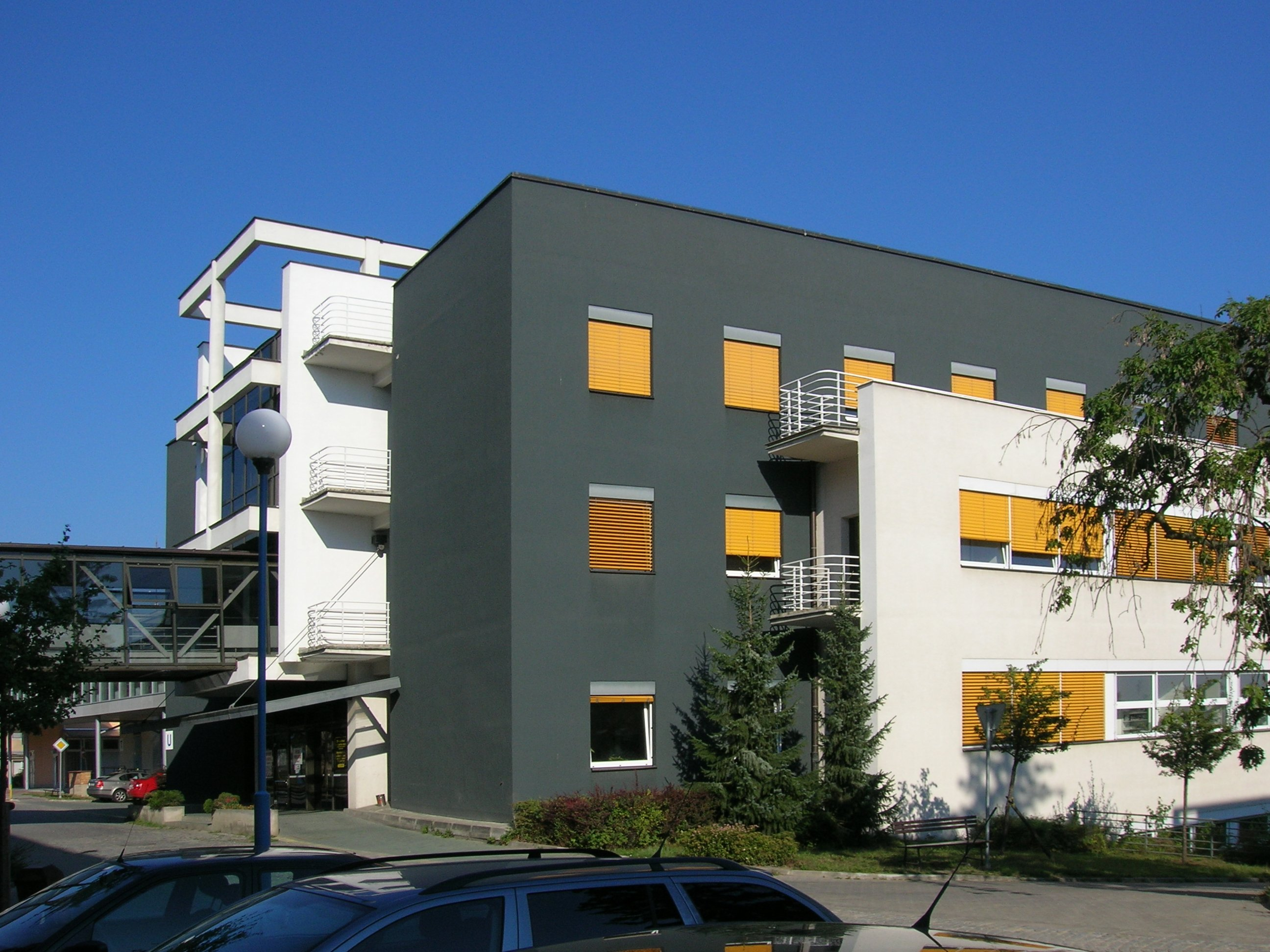 Třebíč-Jejkov. Hospital